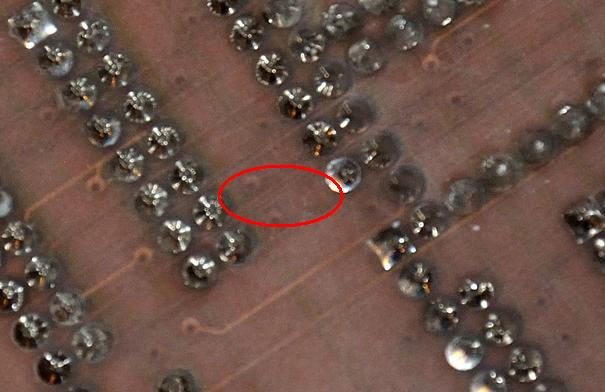 IZOT 1036C motherboard technological norm 3thou